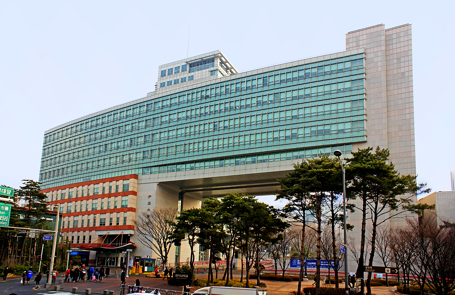 Hongik University Seoul Campus Main Gate